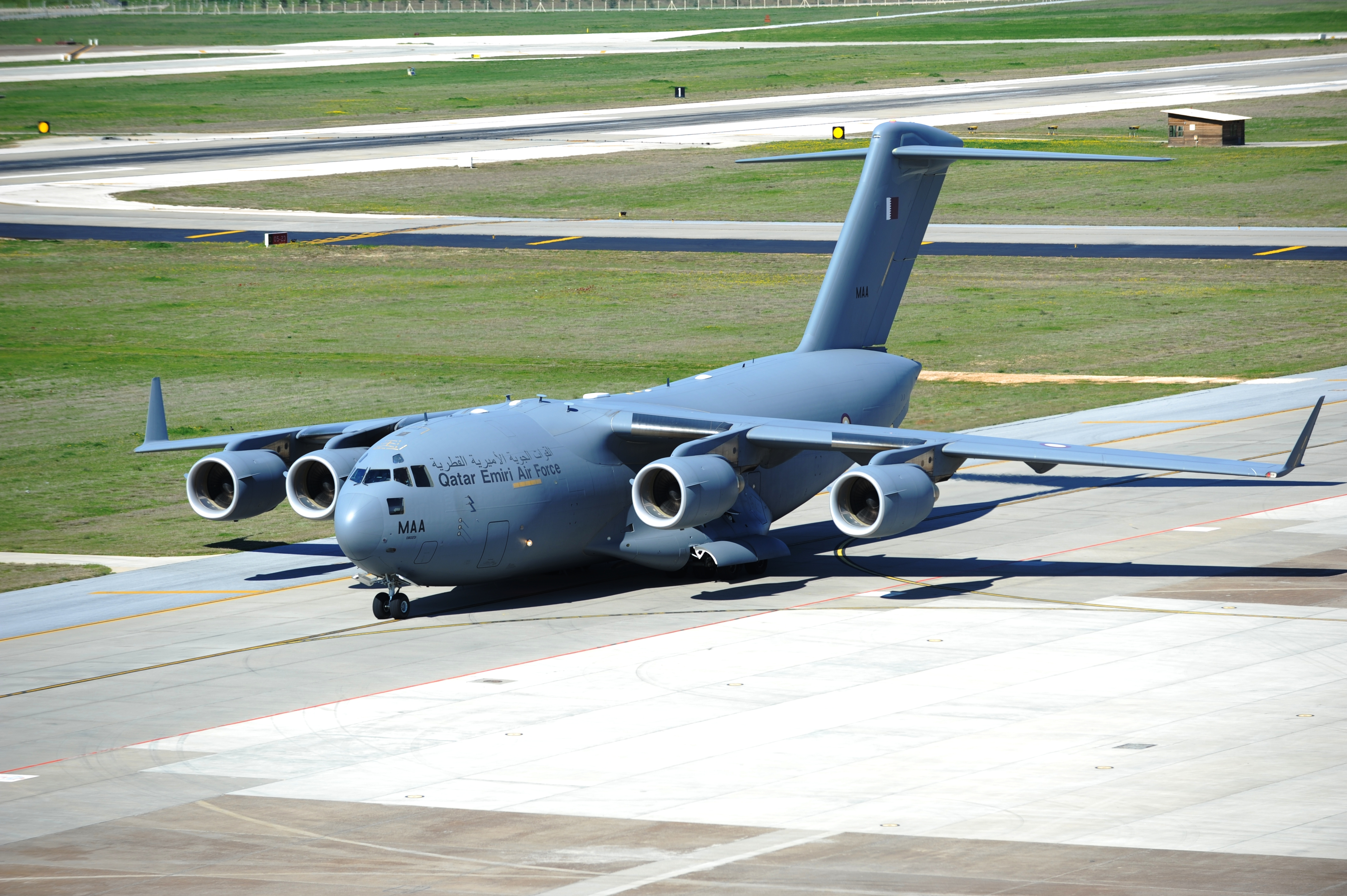 A Qatari C-17 taxies down the runway March 25, 2011, at Incirlik Air Base, Turkey to refuel in support of Operation Odyssey Dawn. Joint Task Force Odyssey Dawn is the U.S. Africa Command task force established to provide operational and tactical command and control of U.S. military forces supporting the international response to the unrest in Libya and enforcement of United Nations Security Council Resolution 1973. UNSCR 1973 authorized all necessary measures to protect civilians in Libya under threat of attack by Qadhafi regime forces. JTF Odyssey Dawn is commanded by U.S. Navy Admiral Samuel J. Locklear, III.